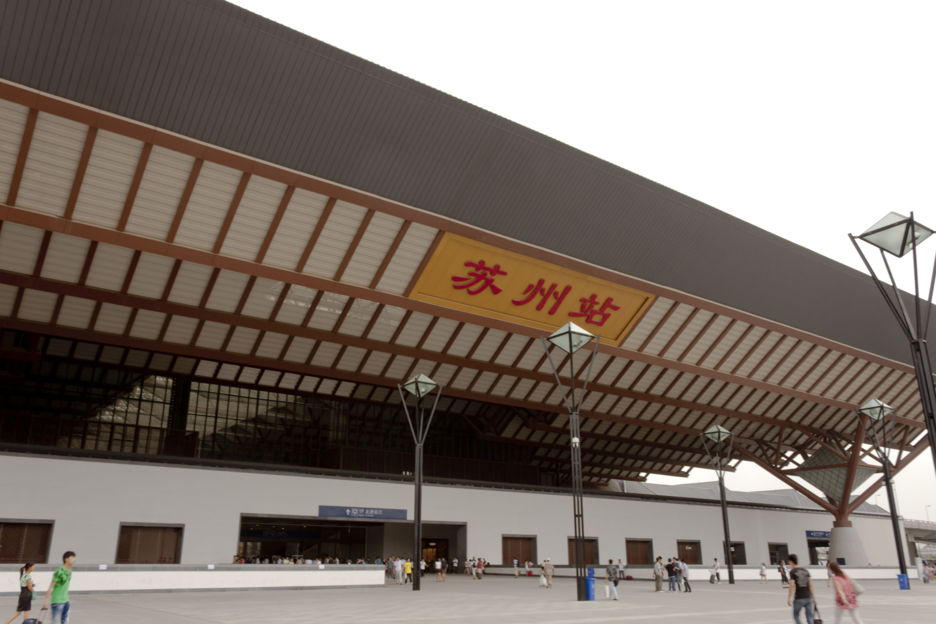 The newly built Suzhou Station